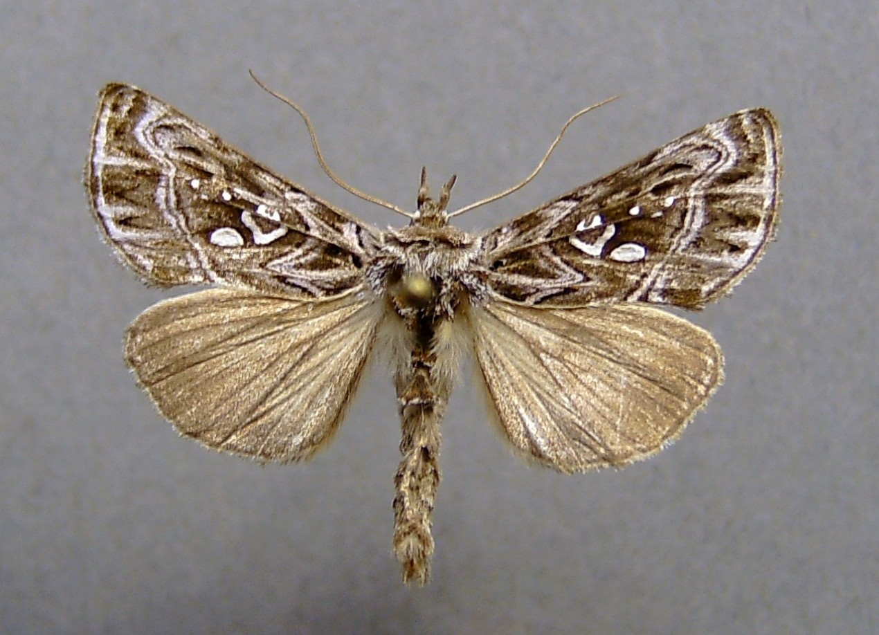 Panchrysia ornata, Chelyabinsk, Russia